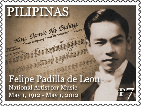 Felipe Padilla De Leon Birth Centenary